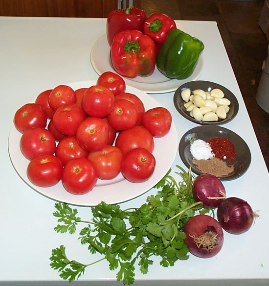 Ingredients for making a fermented salsa. Clockwise from top: capsicum (bell peppers) garlic salt, chili pepper, ground coriander seed red onions fresh coriander (cilantro) tomatoes Recipe at the Wikibooks Cookbook.